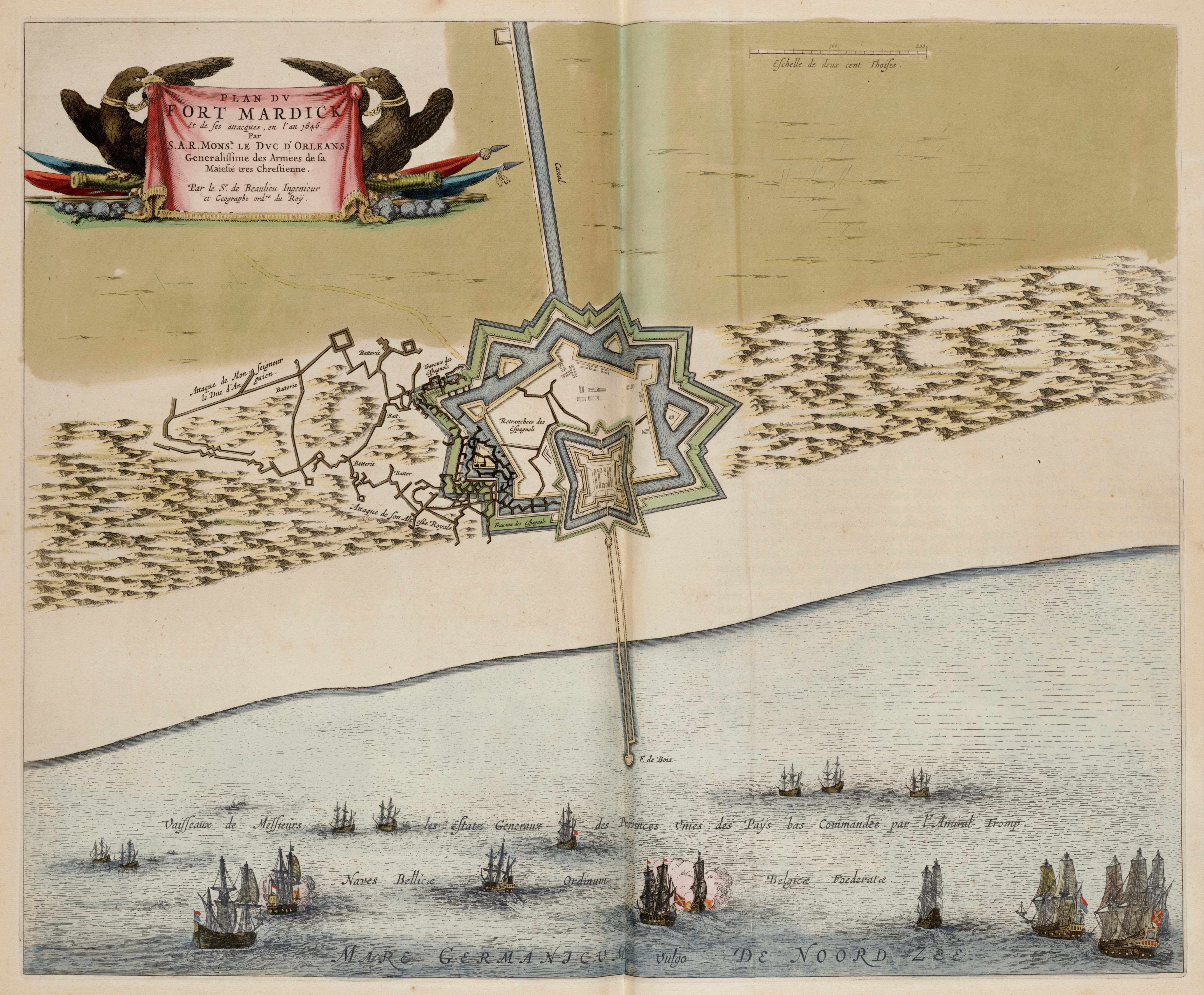 Map of Fort-Mardyck and the attacks that were made on the city in 1646.